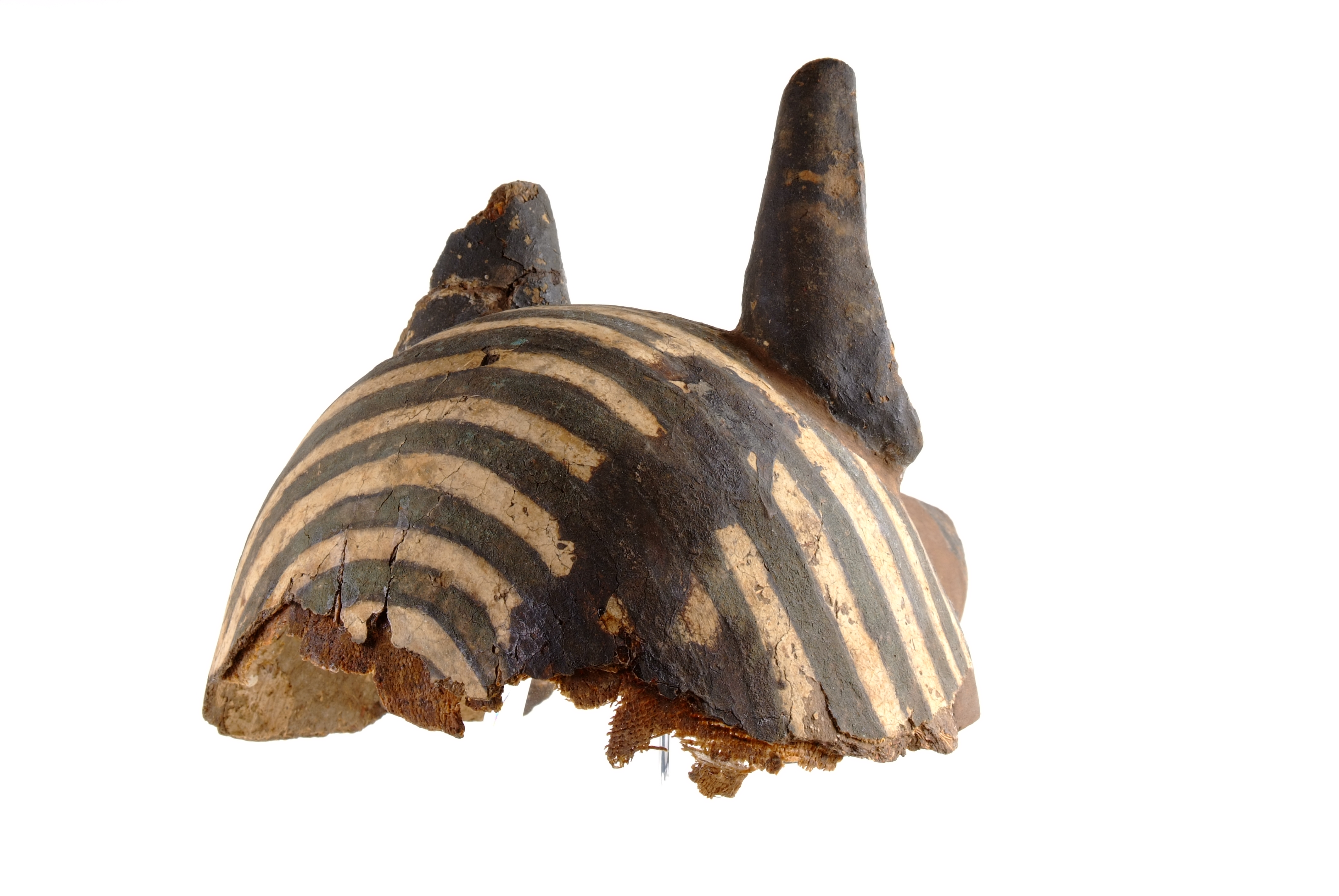 Rear three-quarter view from the right of cartonnage mask depicting the jackal headed god, Anubis. Painted surface, with blue/black and white lines decorating the head-dress. Raised vertical ears, and long nose.Used by priests during mummification rituals. Fragmentary, but all pieces present. The only cartonnage Anubis Mask in existence and one of only two Anubis masks existant - the other a ceramic mask is in Hildesheim, Germany. Mask likely to be worn by a male priest playing the part of Anubis in a temple during mummification or burial ritual. Probably buried with the priest who had worn it in life.